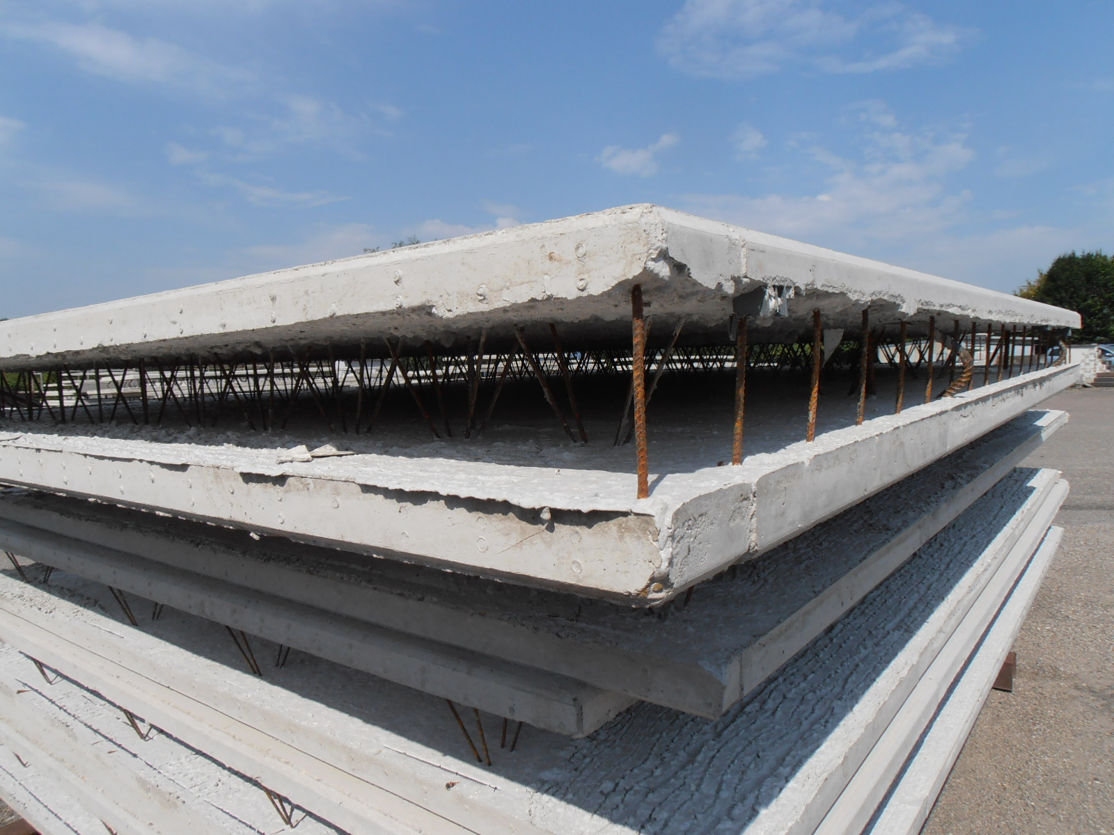 Double wall precast, concrete wall element